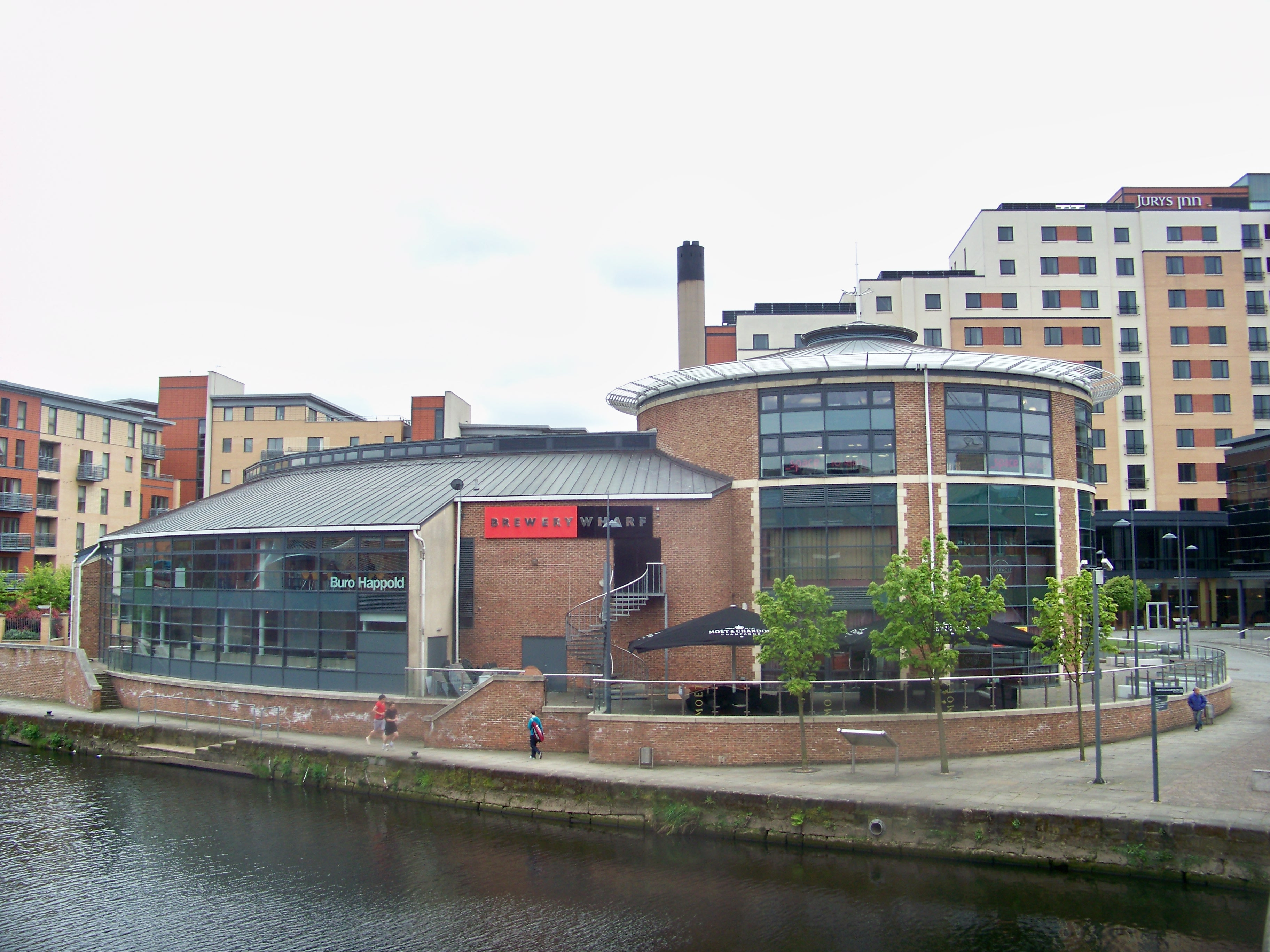 Brewery Wharf as seen from the Centenary Bridge in Leeds, West Yorkshire. The tow-path on the South bank of the River Aire can also be seen as can the Jurys Inn Hotel. Taken on the afternoon of Monday the 10th of May 2010.